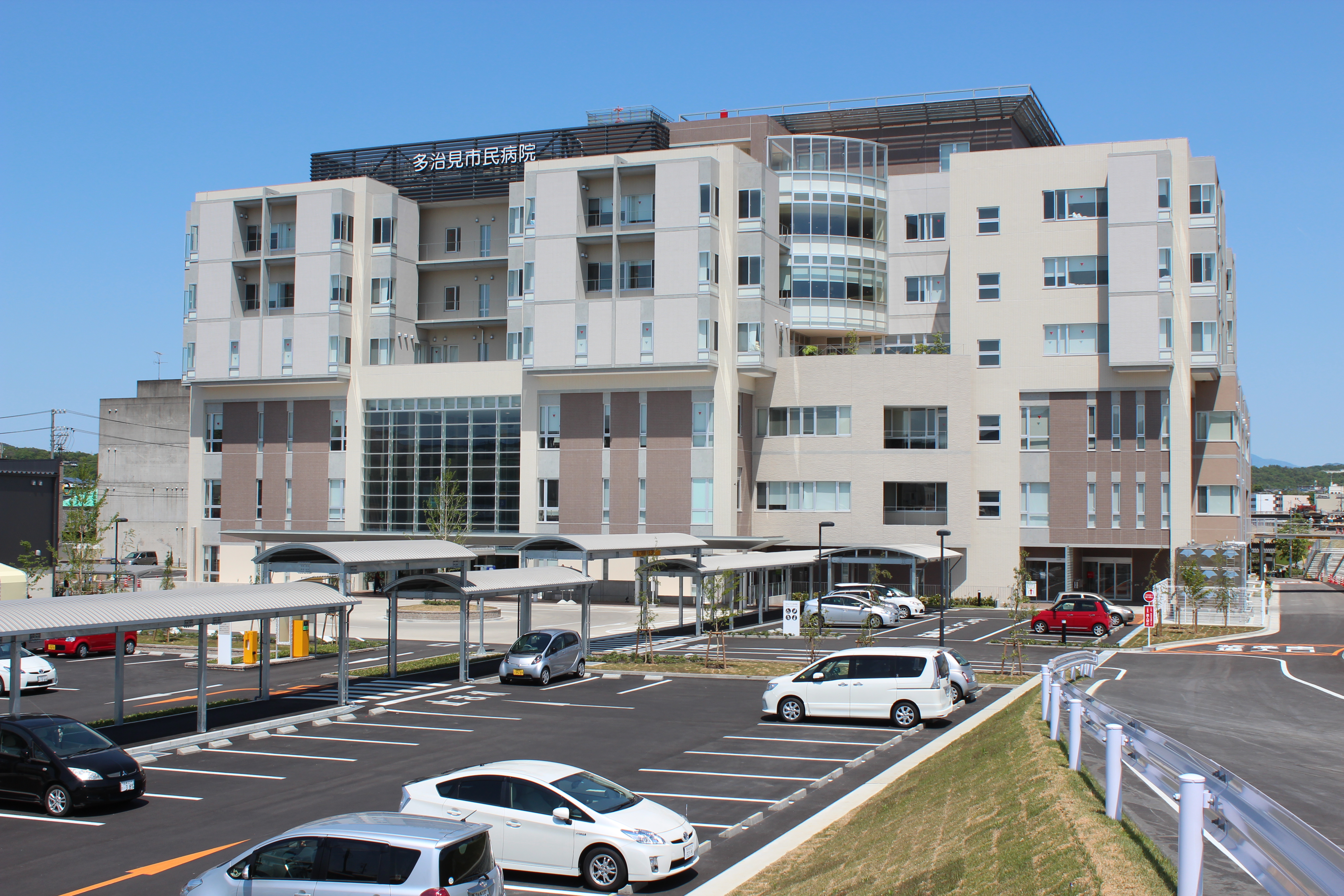 This is the picture of Tajimi-shimin-hospital. (in GIfu, Japan)